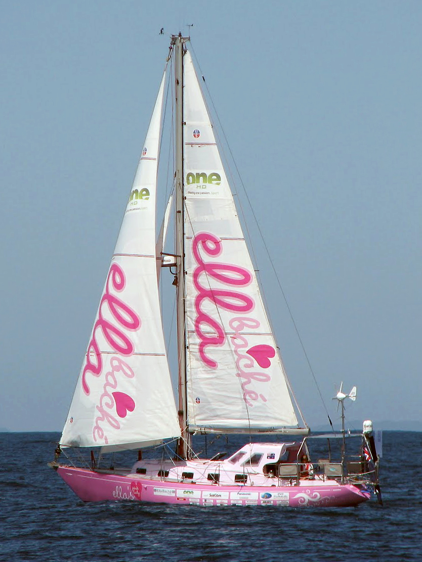 Jessica Watson leaving Brisbane for Sydney with "Pink Lady" (Sept. 8, 2009)